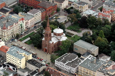 Bird eye view of Freedom Square bydgoszcz